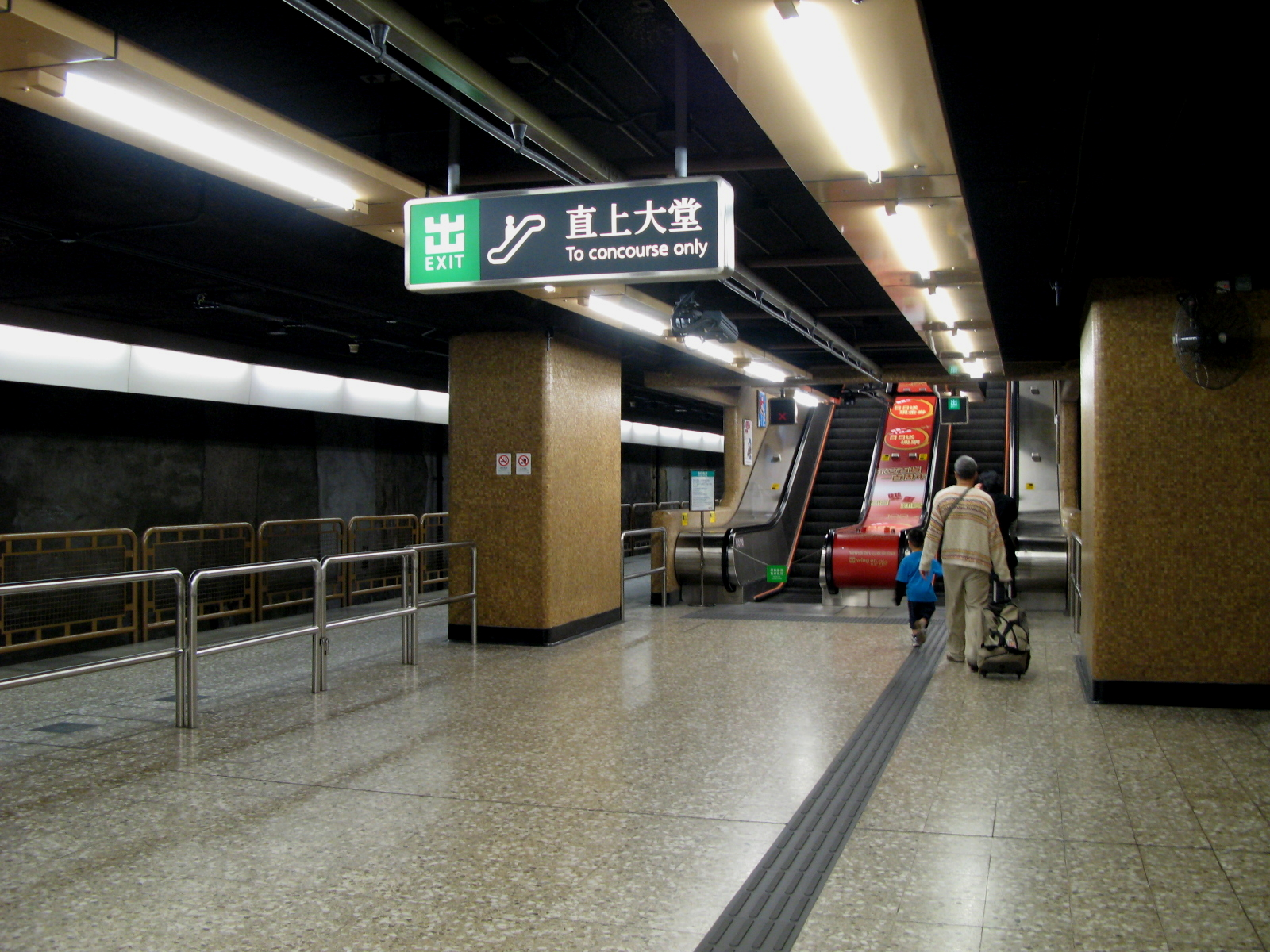 Rumsey Station Platform